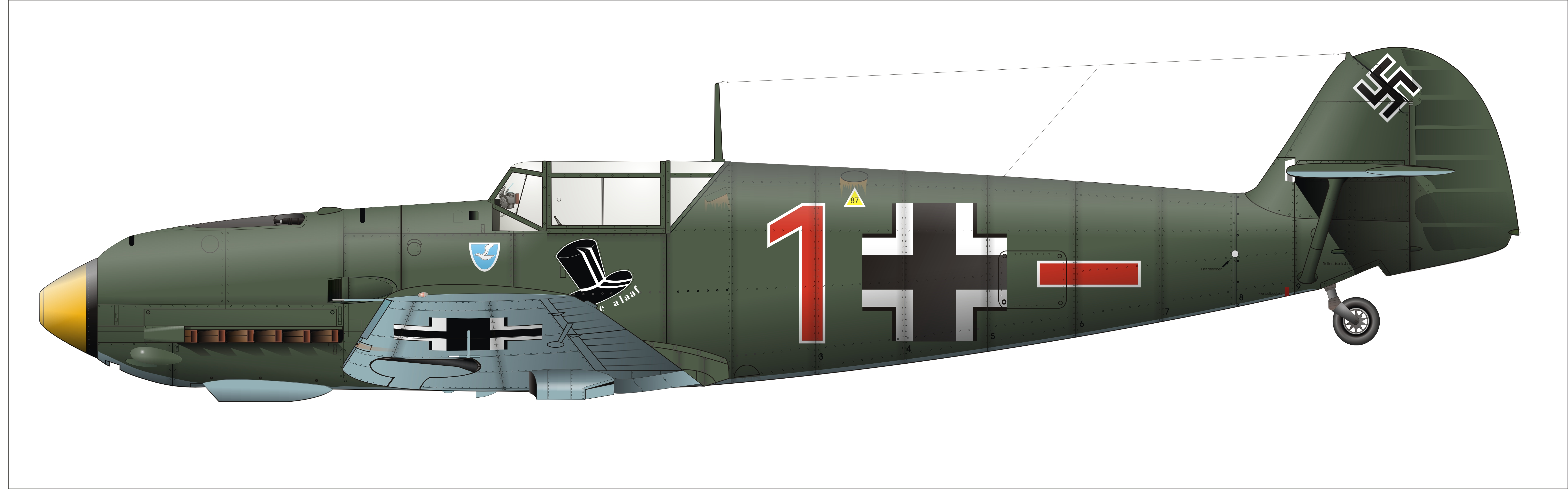 Bf 109 E-1, Fw. Held, 1939